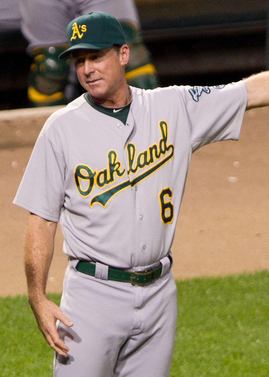 A's manager Bob Melvin - Athletics at Orioles July 27, 2012